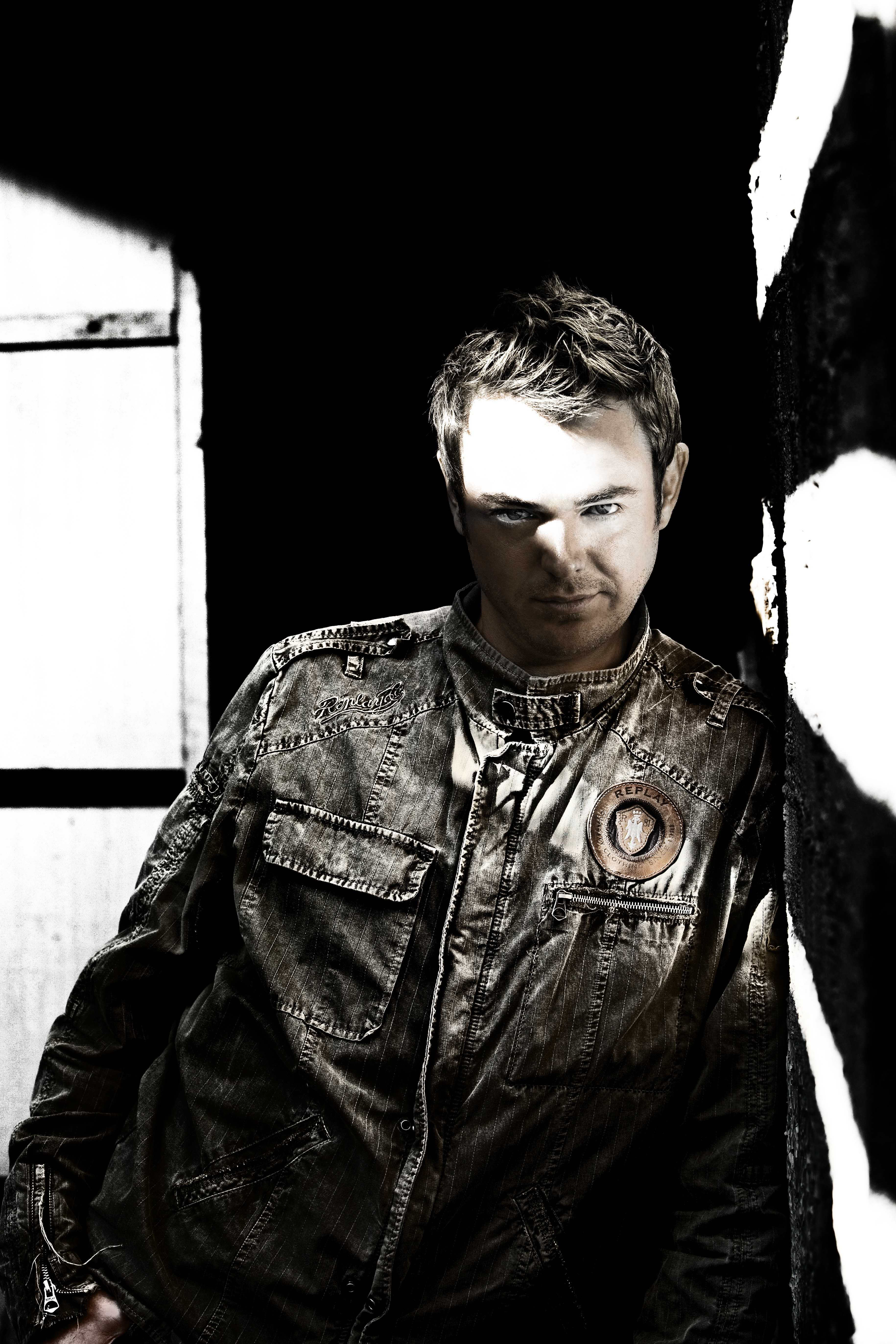 This photo of andy moor was shot for his Album release.